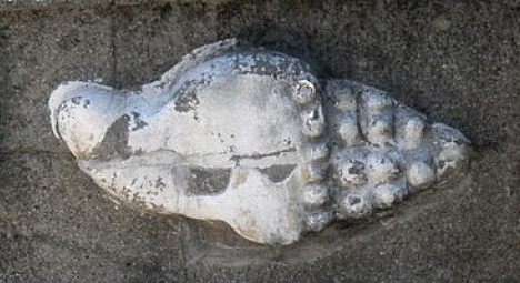 The conch shell figured on the Temple of Quetzalcoatl at Teotihuacán, is Turbinella angulata, the West Indian Chank. (VOKES, Emily H.; 1963)[1]